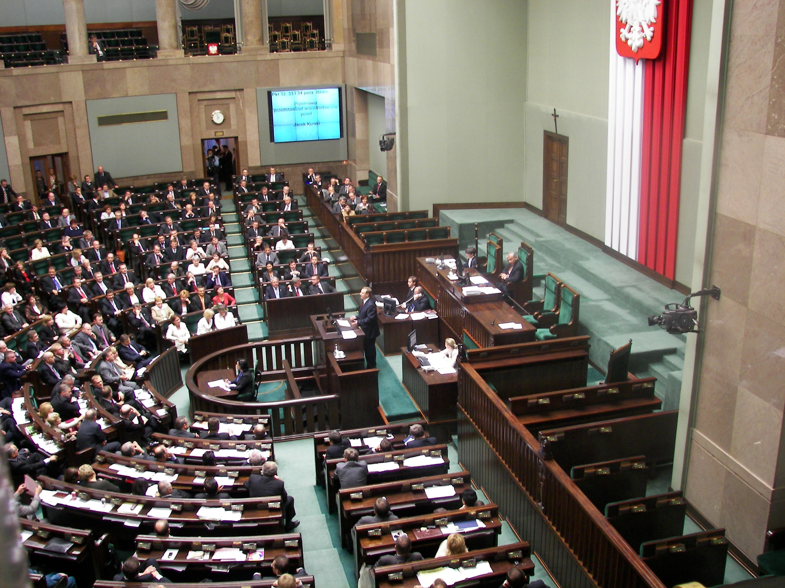 Poland's parliament called early elections (Fri Sep 7, 2007)